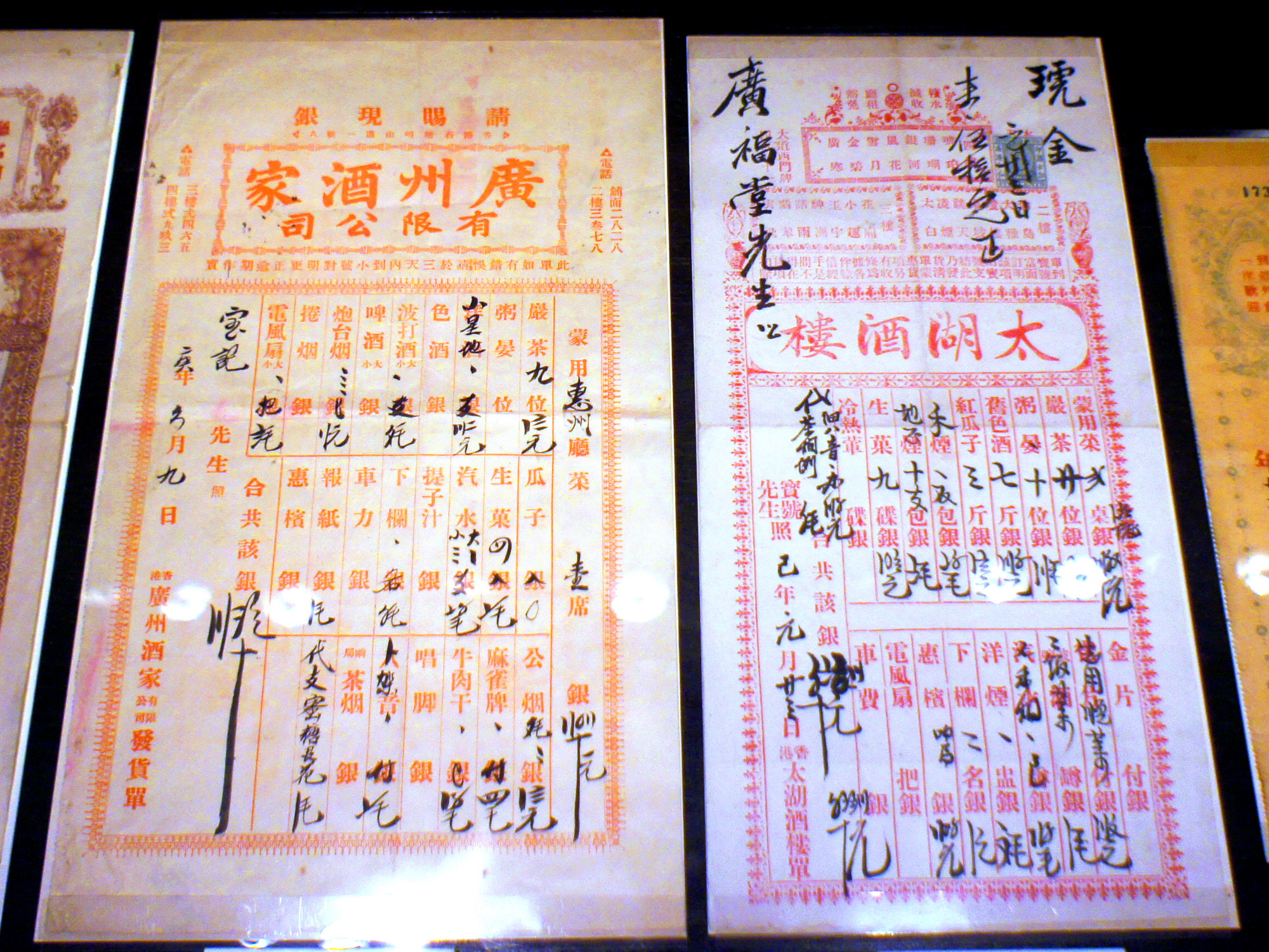 Suzhou numerals on banquet invoices. A banquet invoice issued by Canton Restaurant, 1910-1920s (on the left). A banquet invoice issued by Tai Wu Restaurant, 1910-1920s (on the right). An exhibit of the Hong Kong Museum of History.